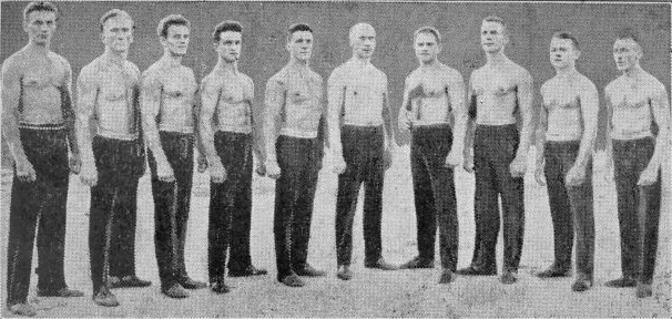 Yugoslav artistic gymnasts at 1928 Olympics